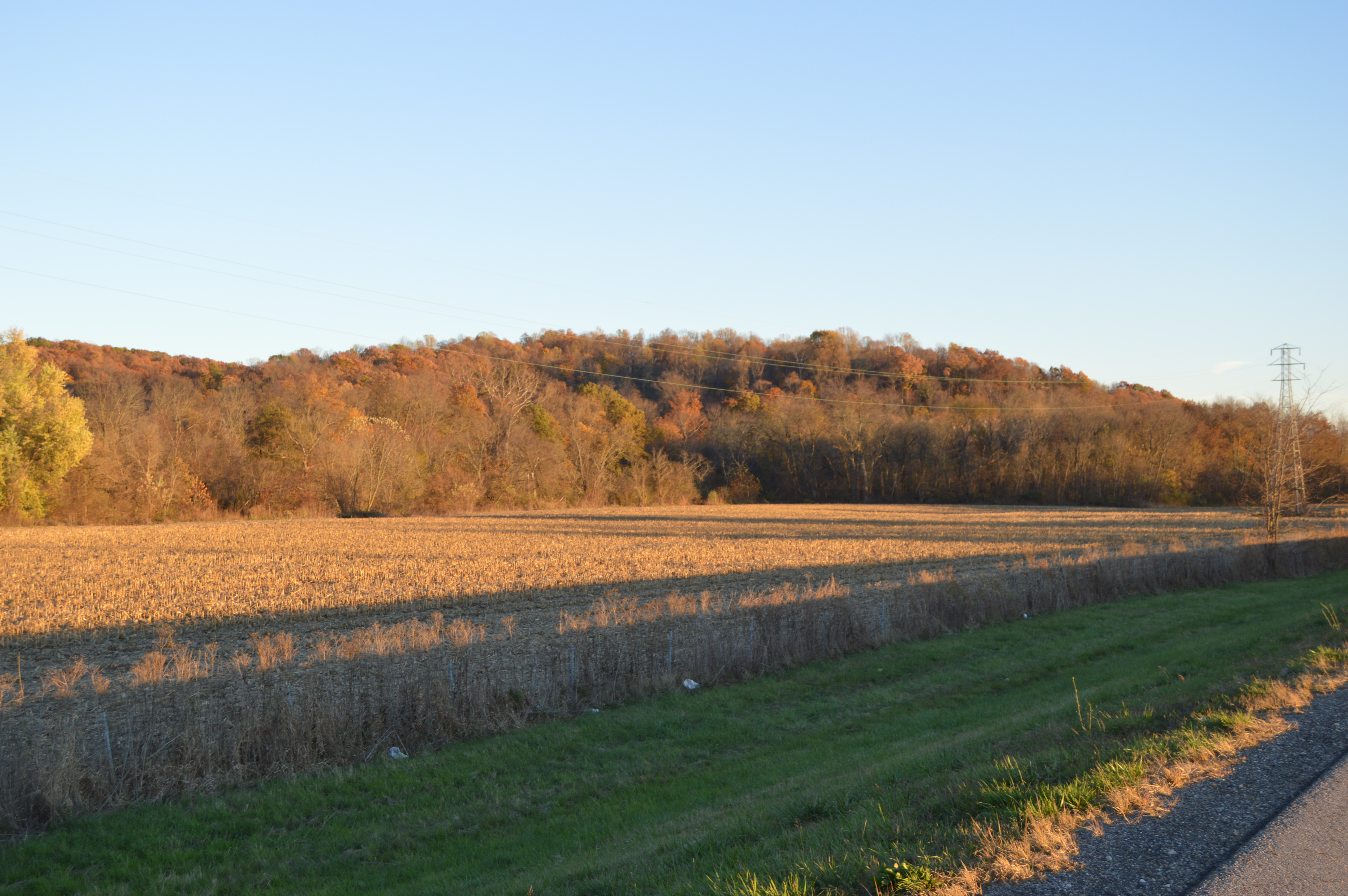 Woods and a stubble field off the eastern side of U.S. Route 33 north of Sugar Grove in Berne Township, Fairfield County, Ohio, United States. The trees at the edge of the field mark the course of the young Hocking River.